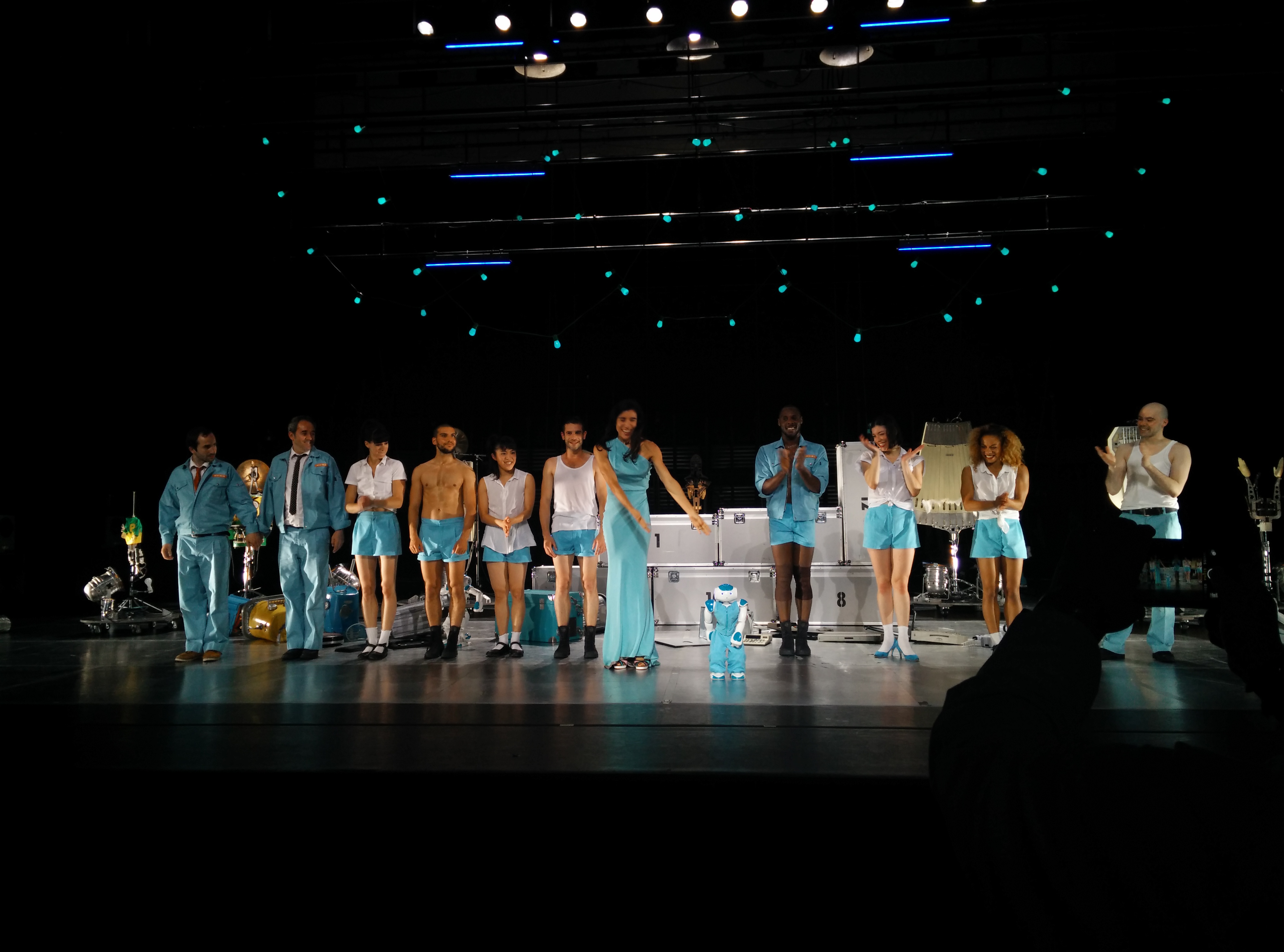 Blanca Li, cast and crew of "Robot" at BAM.